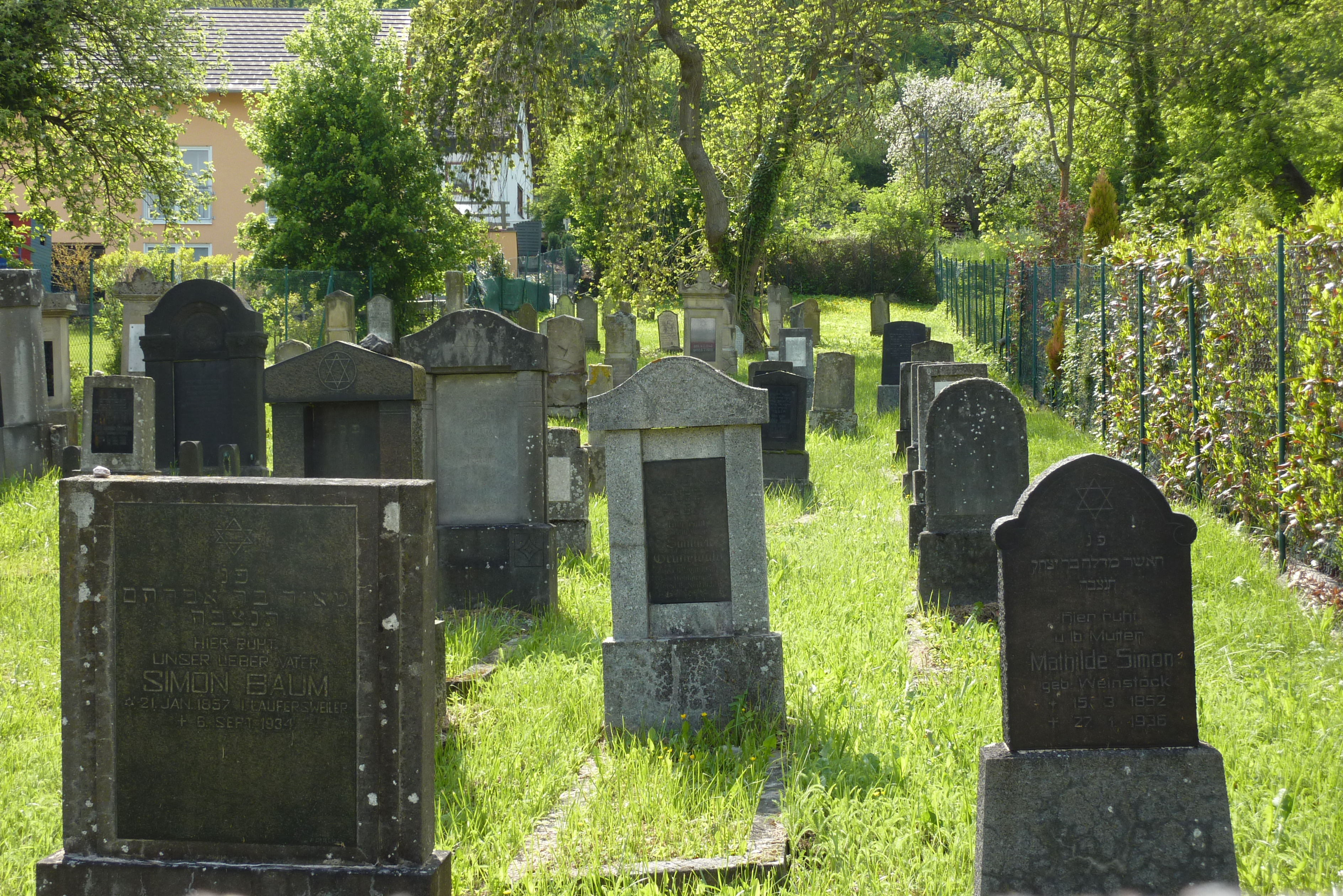 jewish cemetery in Kobern-Gondorf